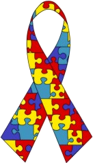 "Autism Awareness Ribbon" which is strongly disliked by many autists - please use Autism spectrum infinity awareness symbol.svg instead.